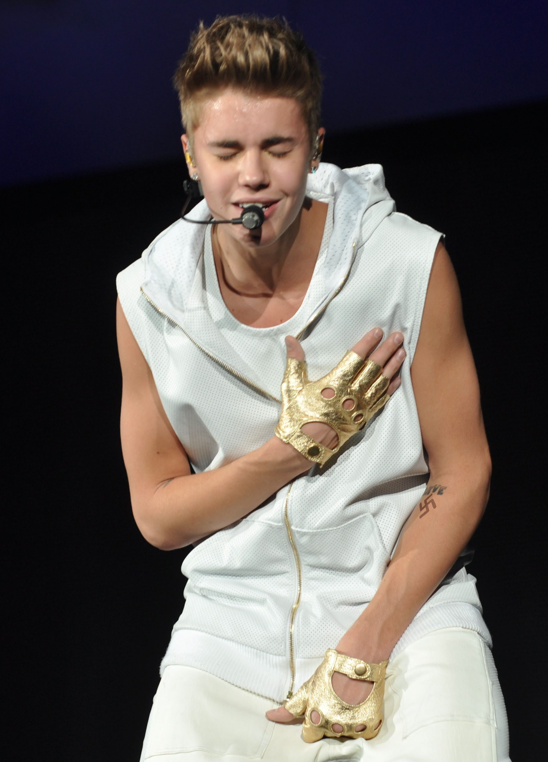 Justin Bieber